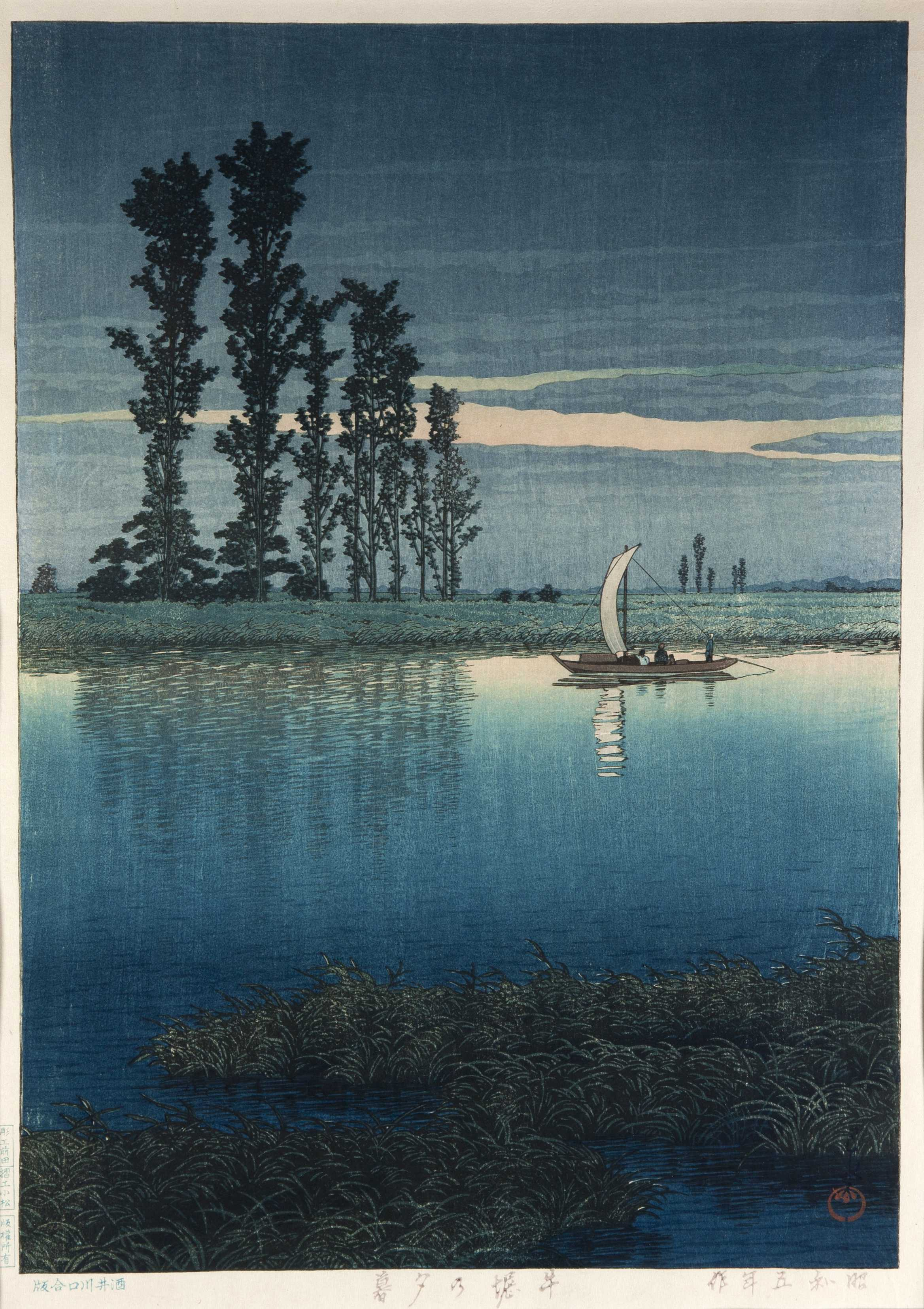 Woodblock print